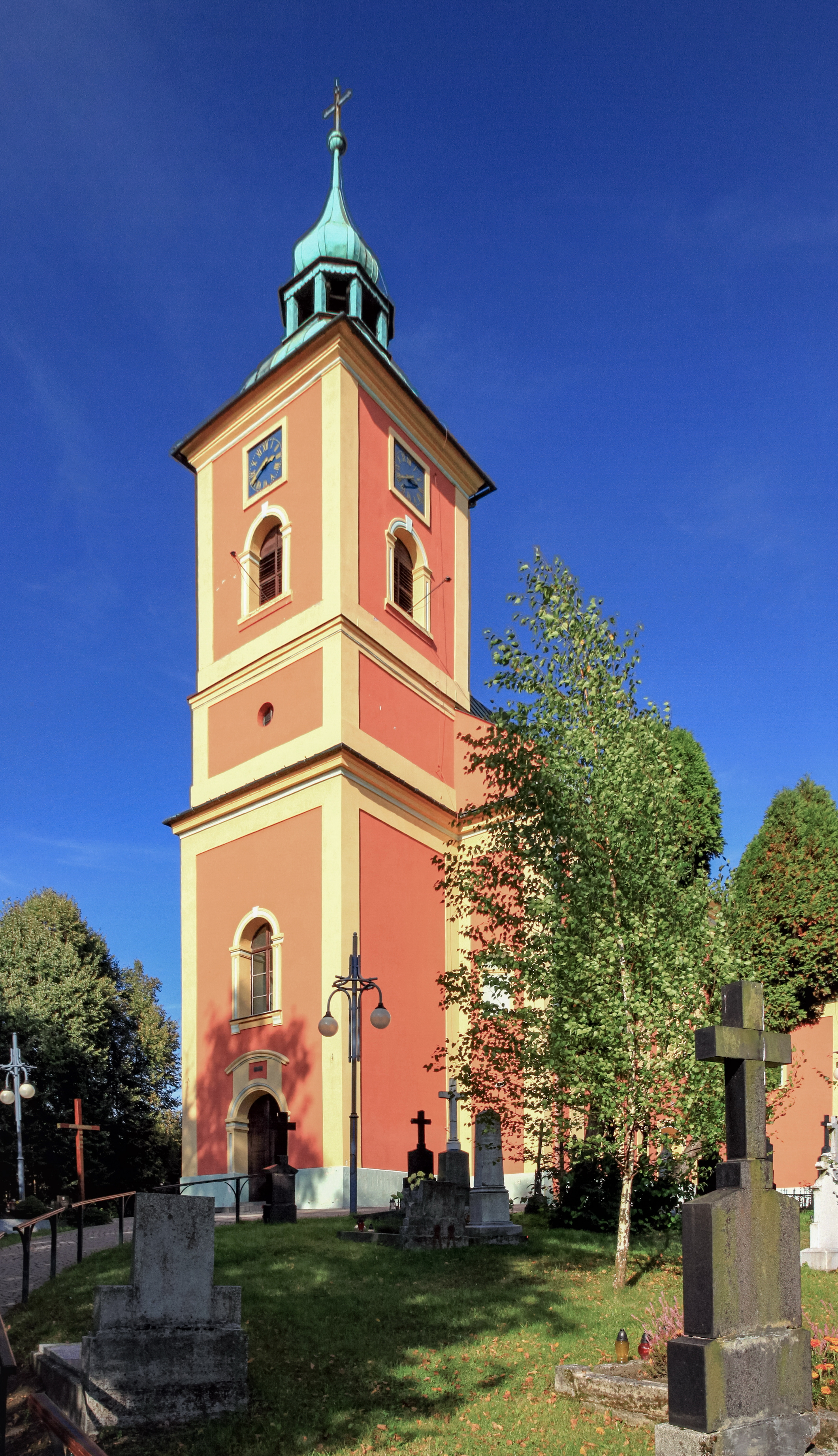 Church of the Nativity of the Blessed Virgin Mary. Kończyce Małe, Silesian Voivodeship, Poland.